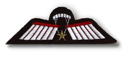 Para Wing C Netherlands